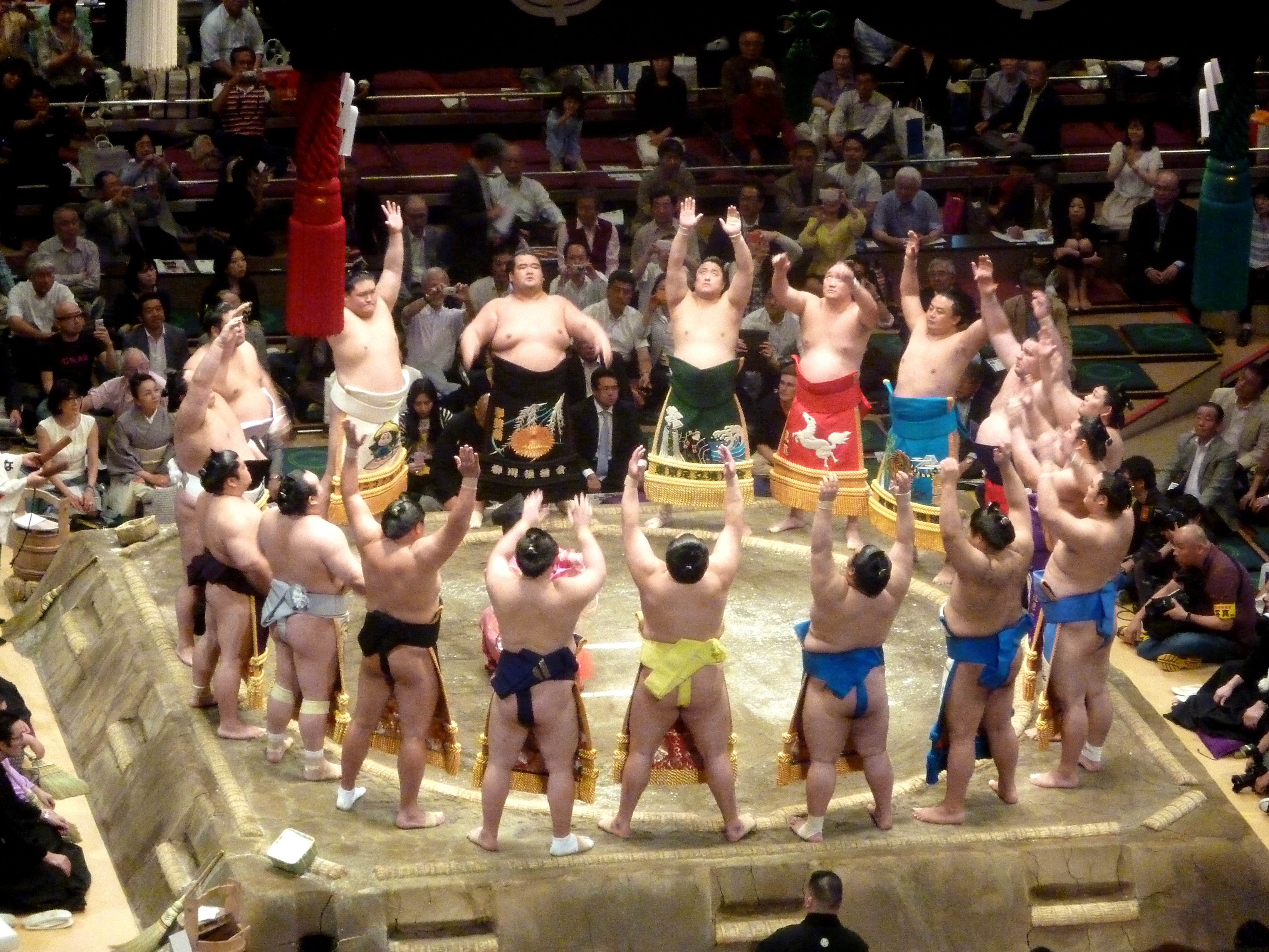 Sumo wrestlers from the Makuuchi division perform the dohyō-iri (or ring-entering ceremony) at day 13 of the 2014 May Grand Sumo Tournament in Tokyo, Japan.